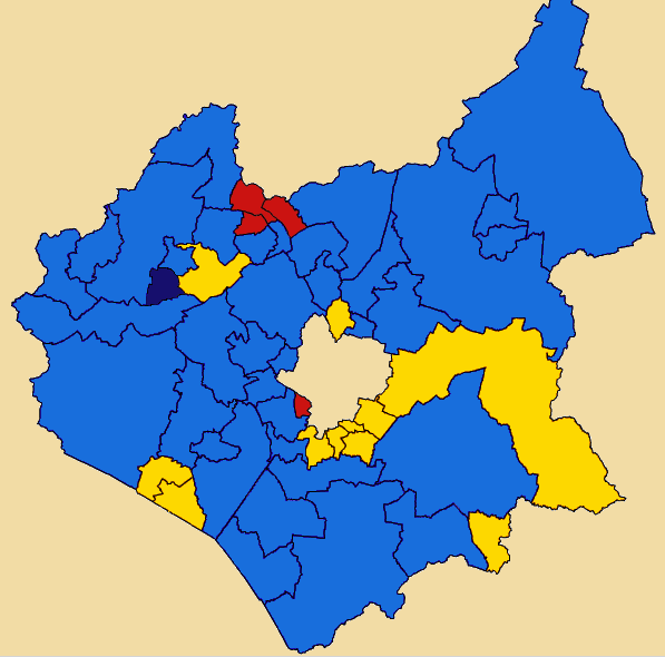 Map of the county of Leicestershire, UK showing the results of the 2009 county council election.